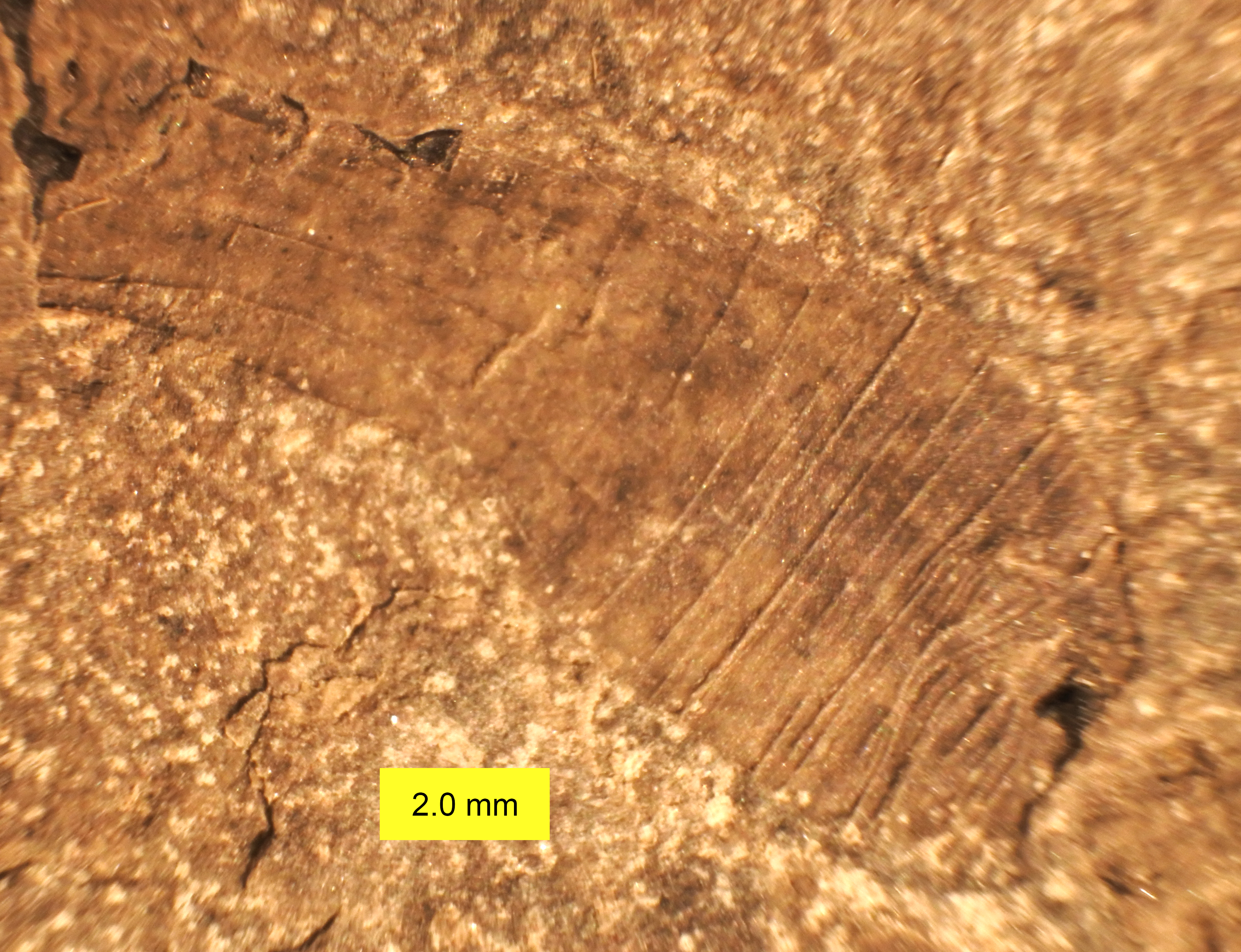 Lecthaylus gregarius, a Silurian sipunculan from Illinois.